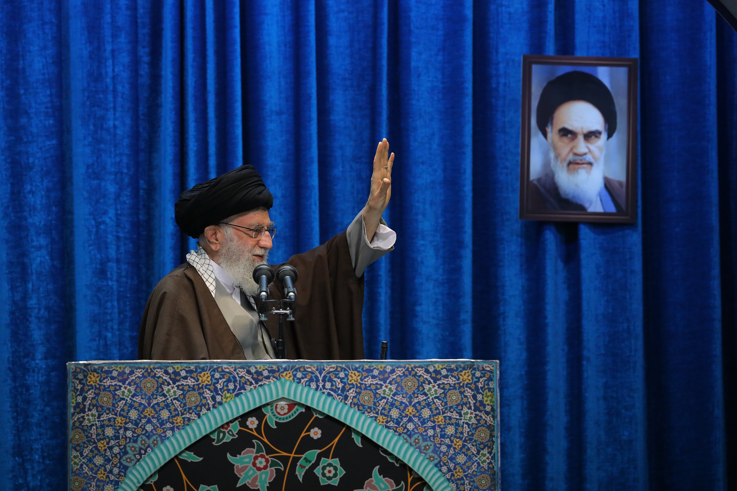 Ali Khamenei in 2020 Tehran Friday Prayer